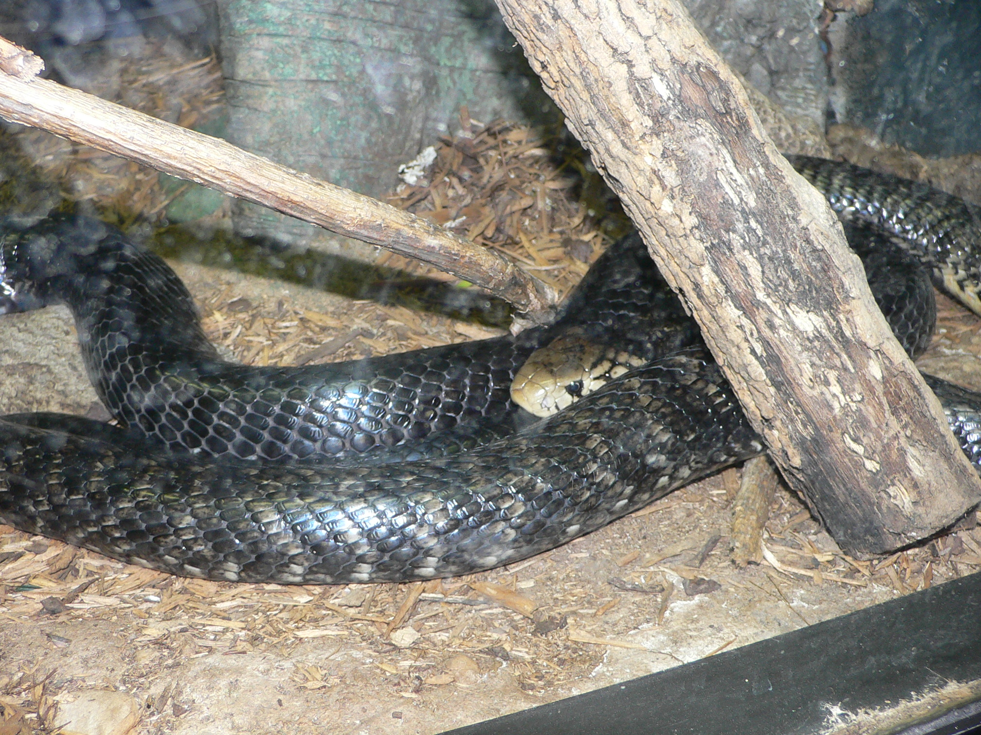 Black and White Cobra at Philadelphia Zoo.